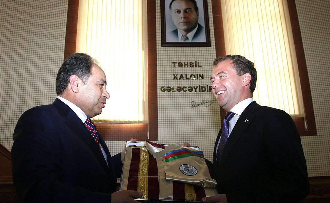 Ceremony conferring on Dmitry Medvedev an honorary doctorate from Baku State University.